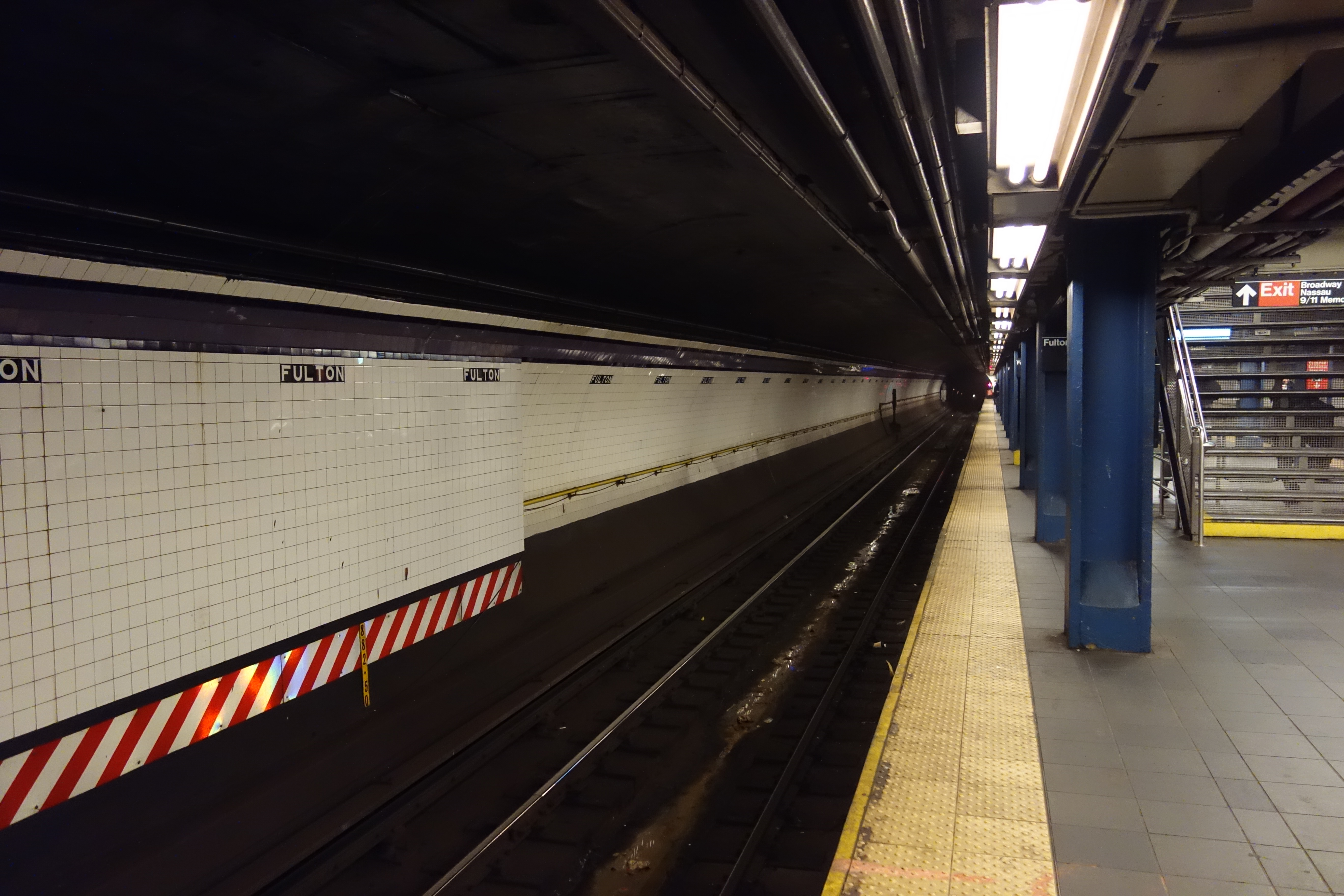 Looking west down the Brooklyn-bound track of the Fulton Street (Broadway–Nassau Street) station of the IND Eighth Avenue line, under Fulton Street in the Financial District, Manhattan.